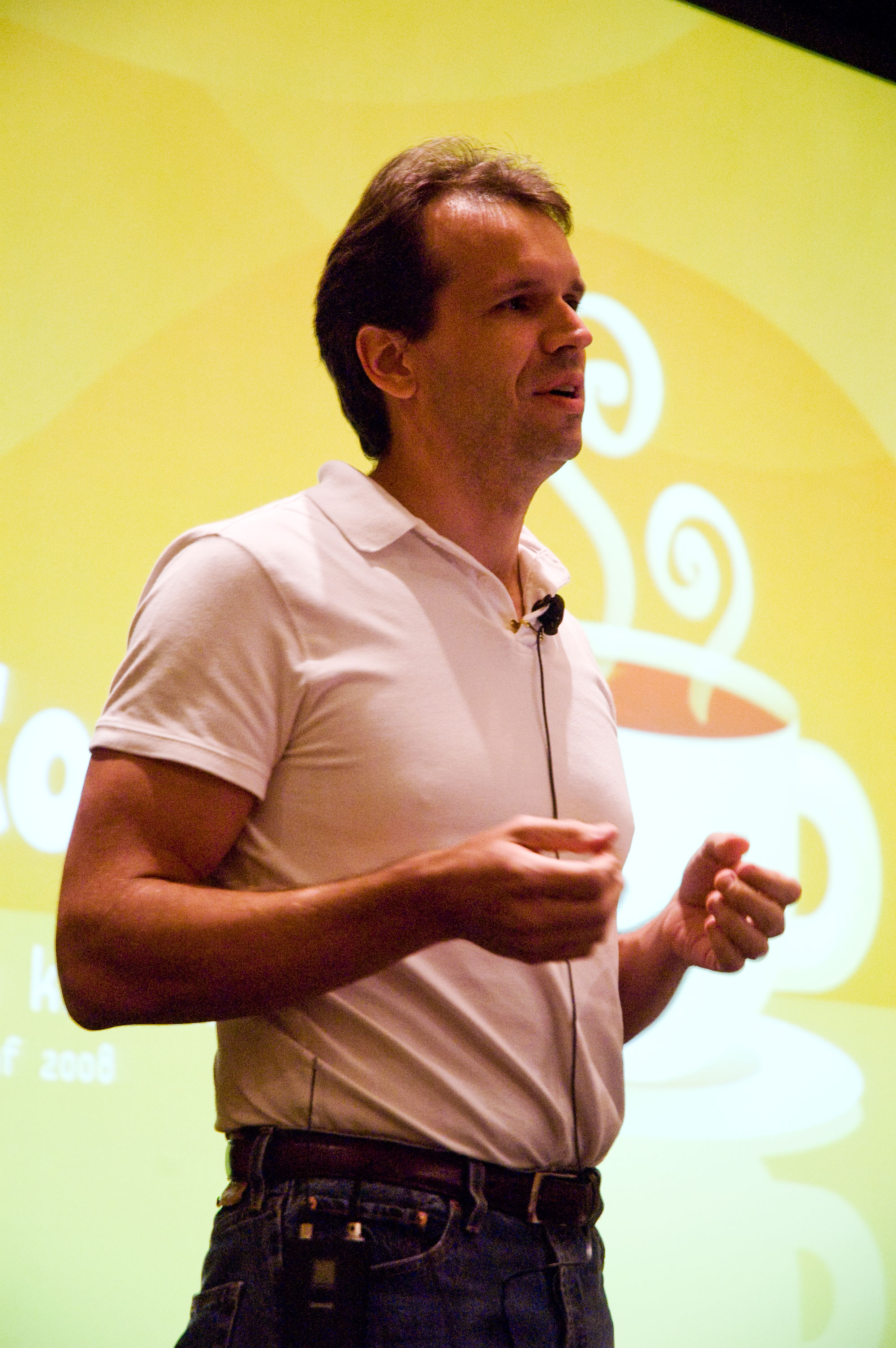 Photo of Rich Kilmer presenting a talk on HotCocoa at RubyConf 2008 in Orlando Florida